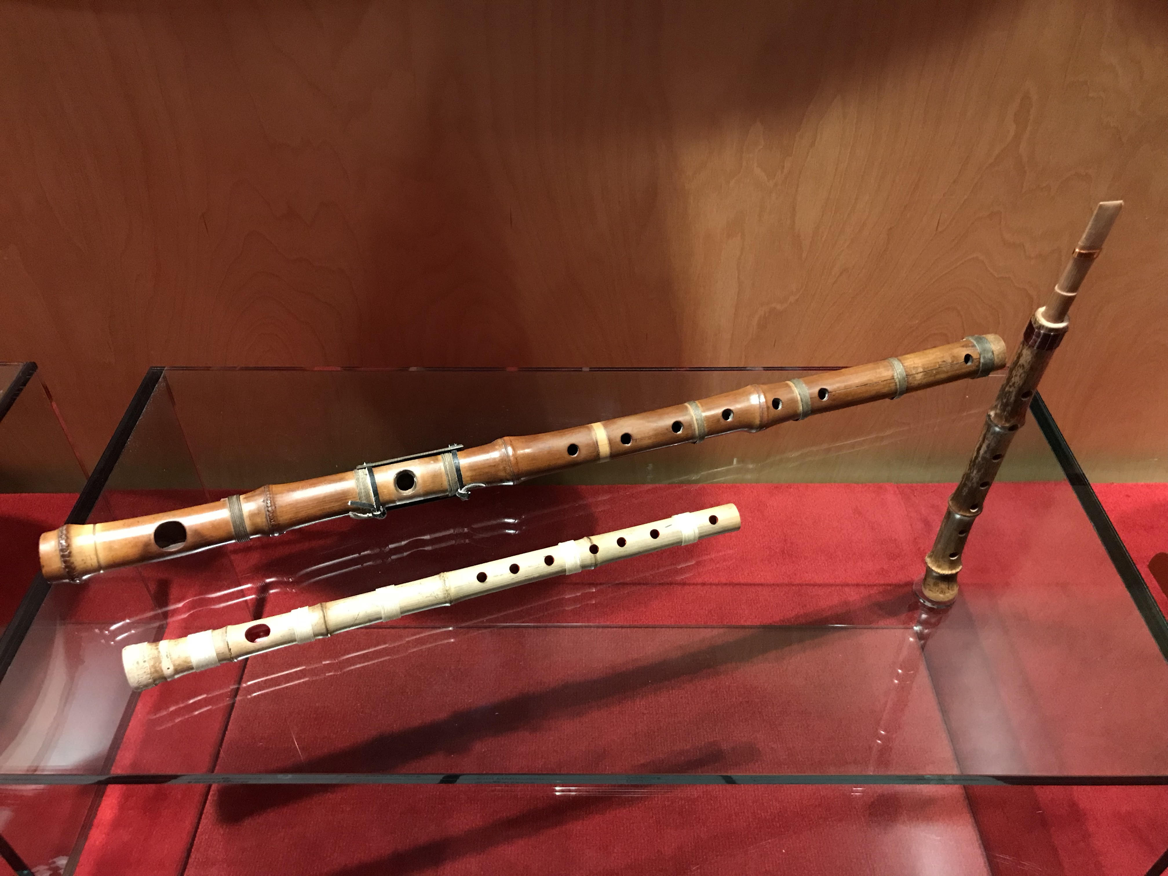 Daegeum for Jeryeak